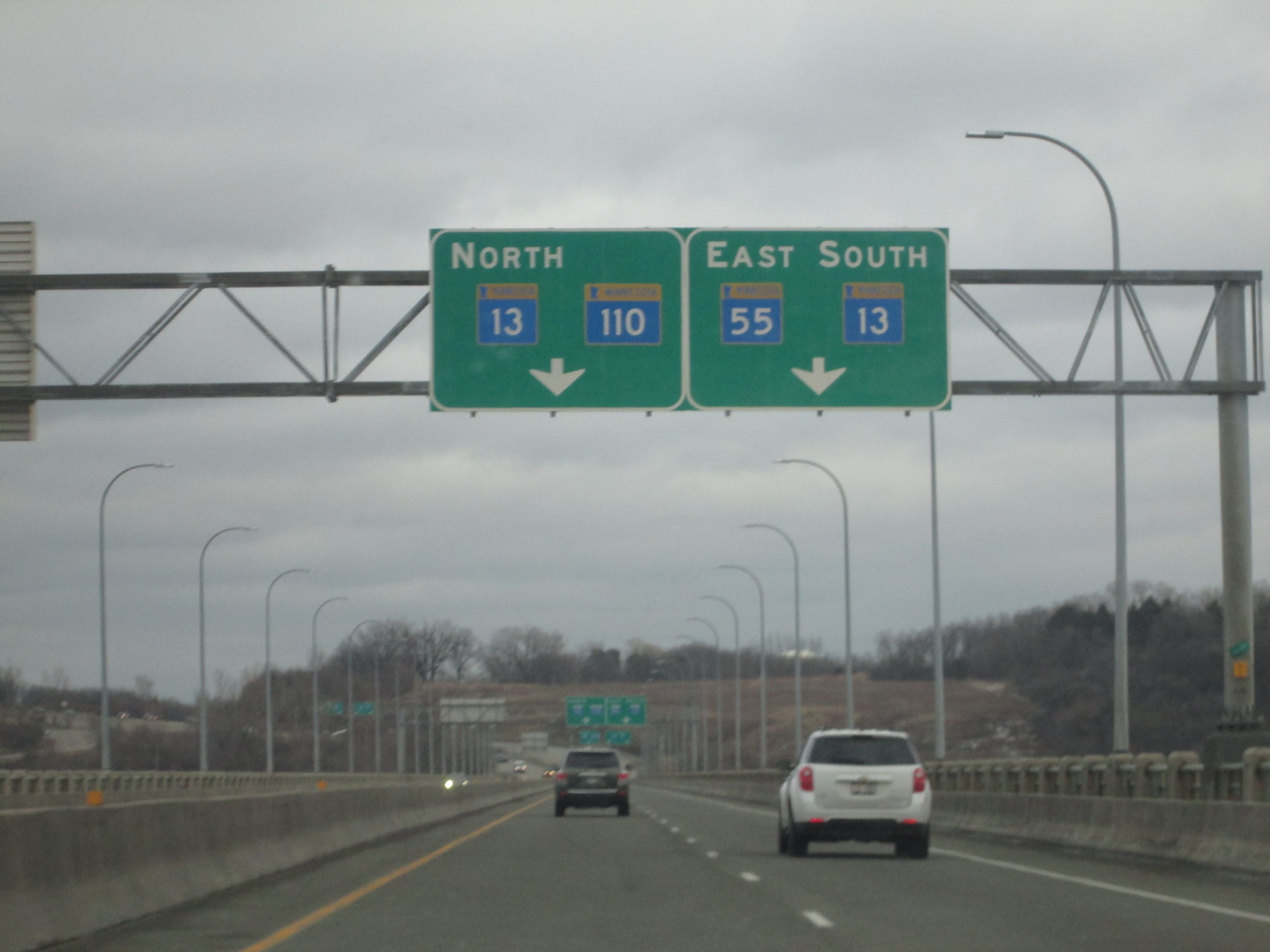 MN-55 crossing the Mendota Bridge. Across the river, MN-55, MN-13 and MN-110 will split.